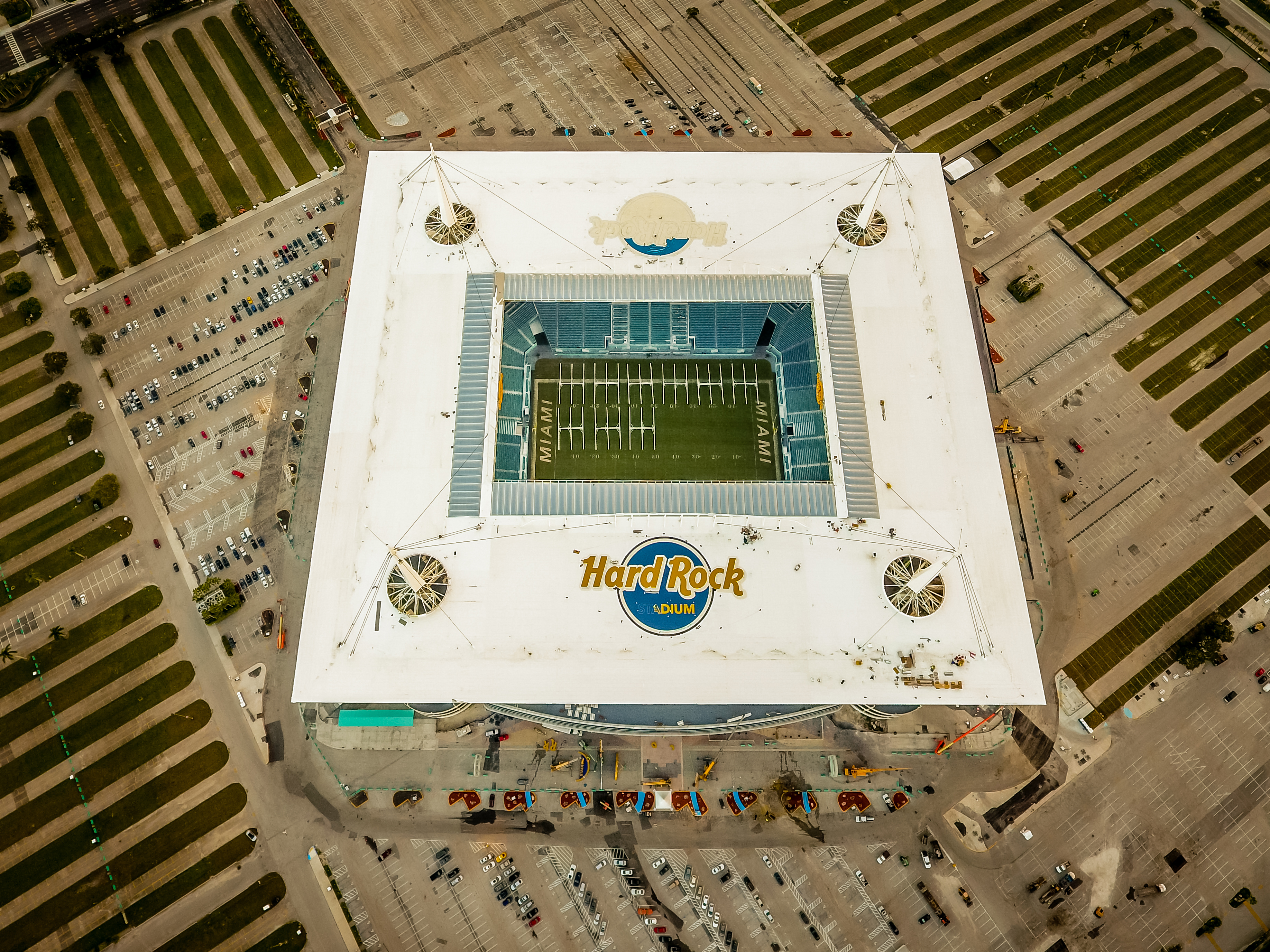 Final preparations for first NFL game at newly renovated Hard Rock Stadium.